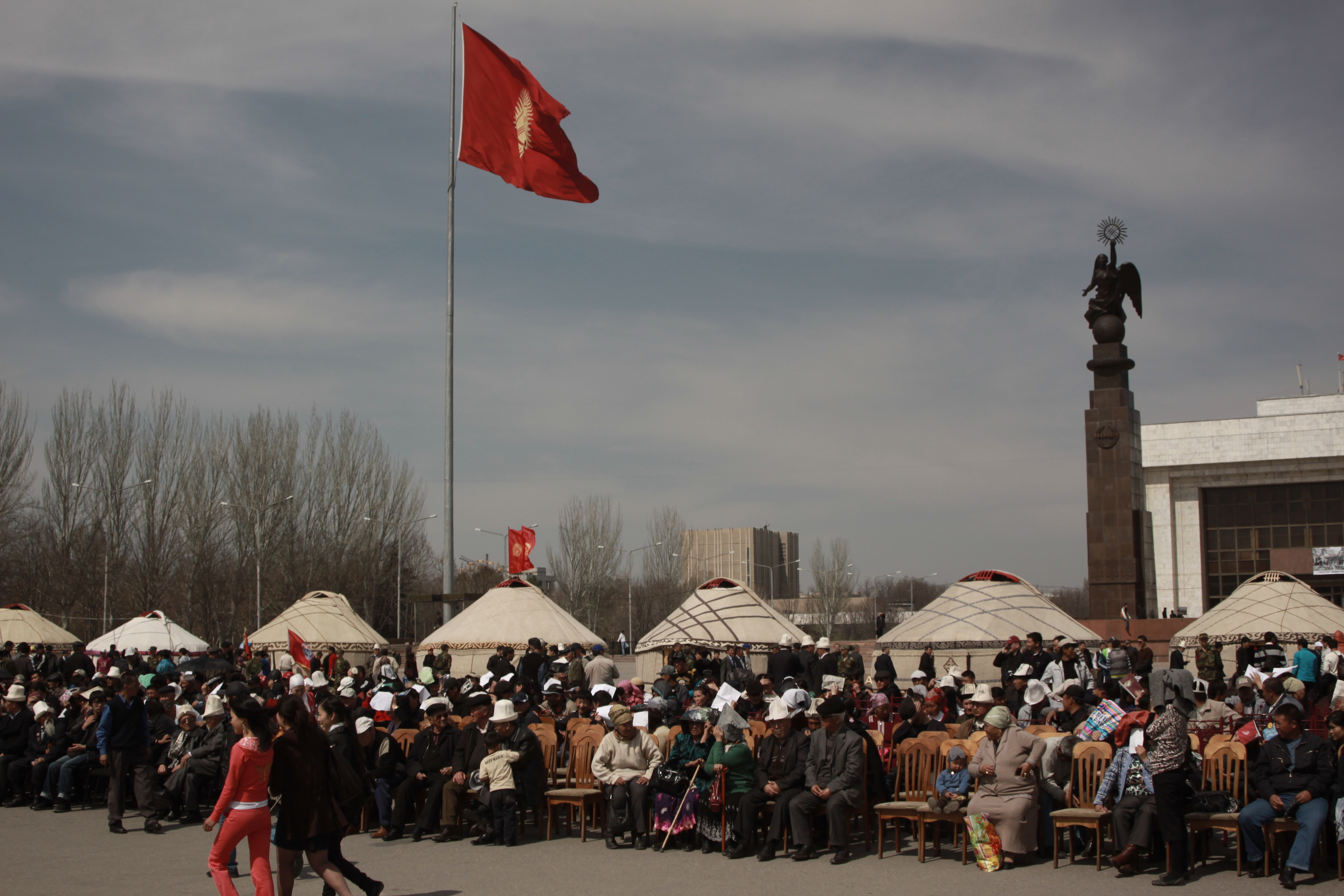 Memorial tribute taking place at Ala-Too Square, Bishkek, Kyrgyzstan, during the first anniversary of the Kyrgyz Revolution of 2010.